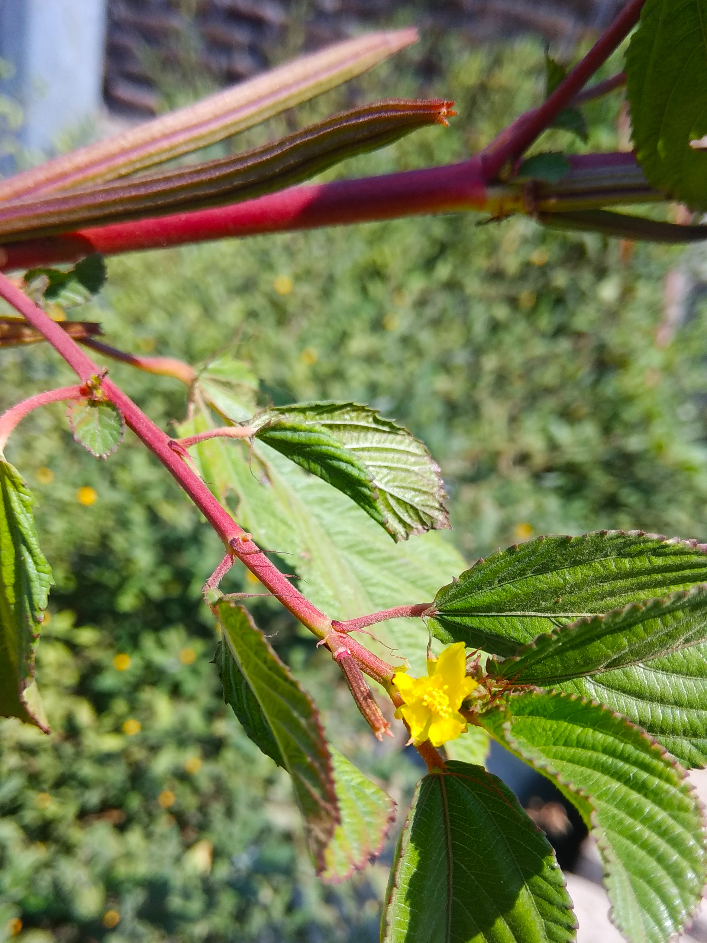 Corchorus olitorius